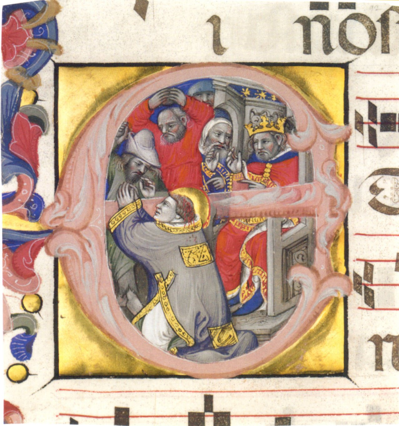 Niccolò da Bologna's tempera, gold and ink on parchment, 1494-1502, Metropolitan Museum of Art. This illuminated letter 'E' is one of twenty known large historiated initials made for a choir book commissioned by the Carthusian monastery of Santo Spirito in Lucca.